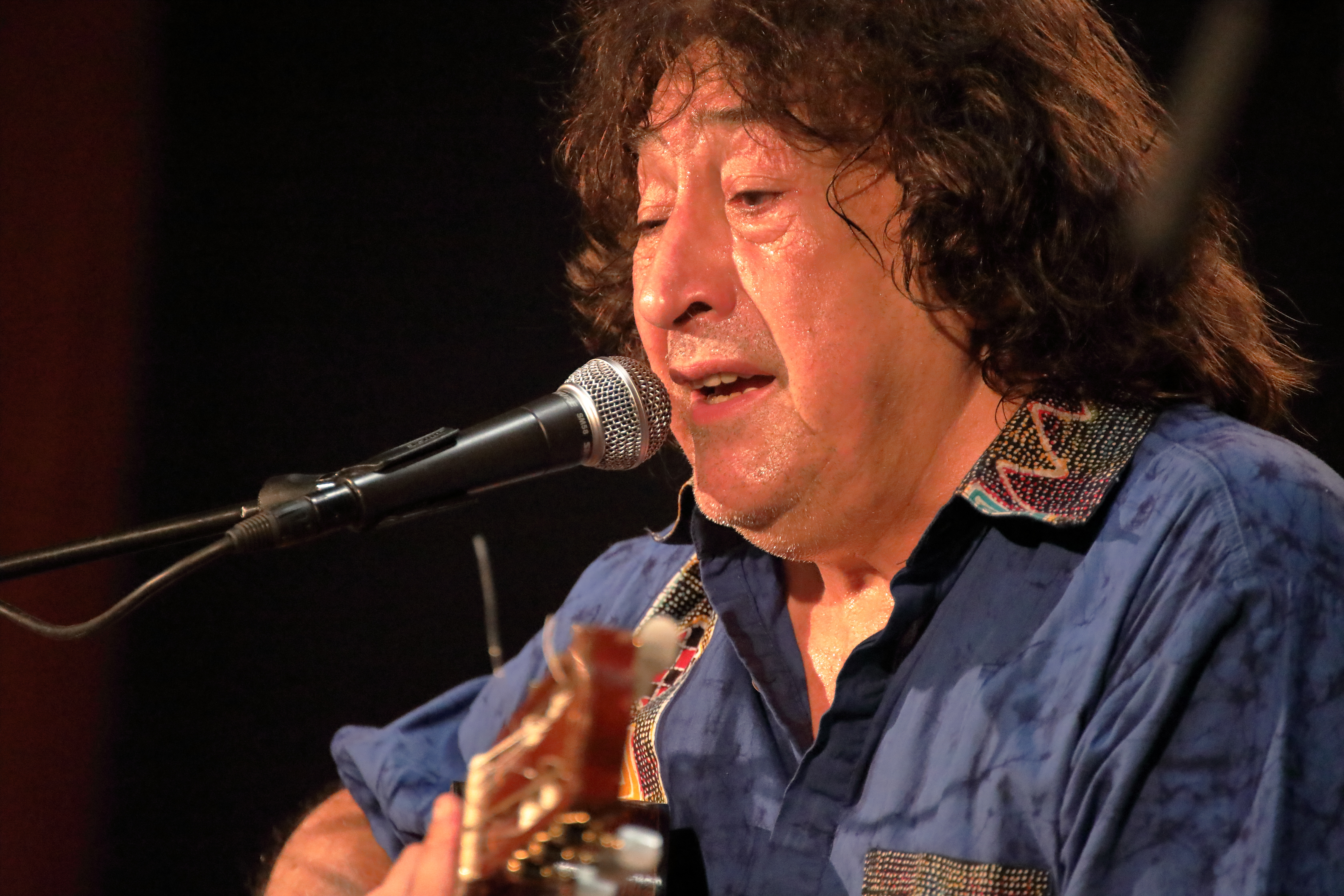 Guitar player Toninho Horta from Brazil and violin player Rudi Berger from Austria in concert at INNtöne Jazzfestival 2019.